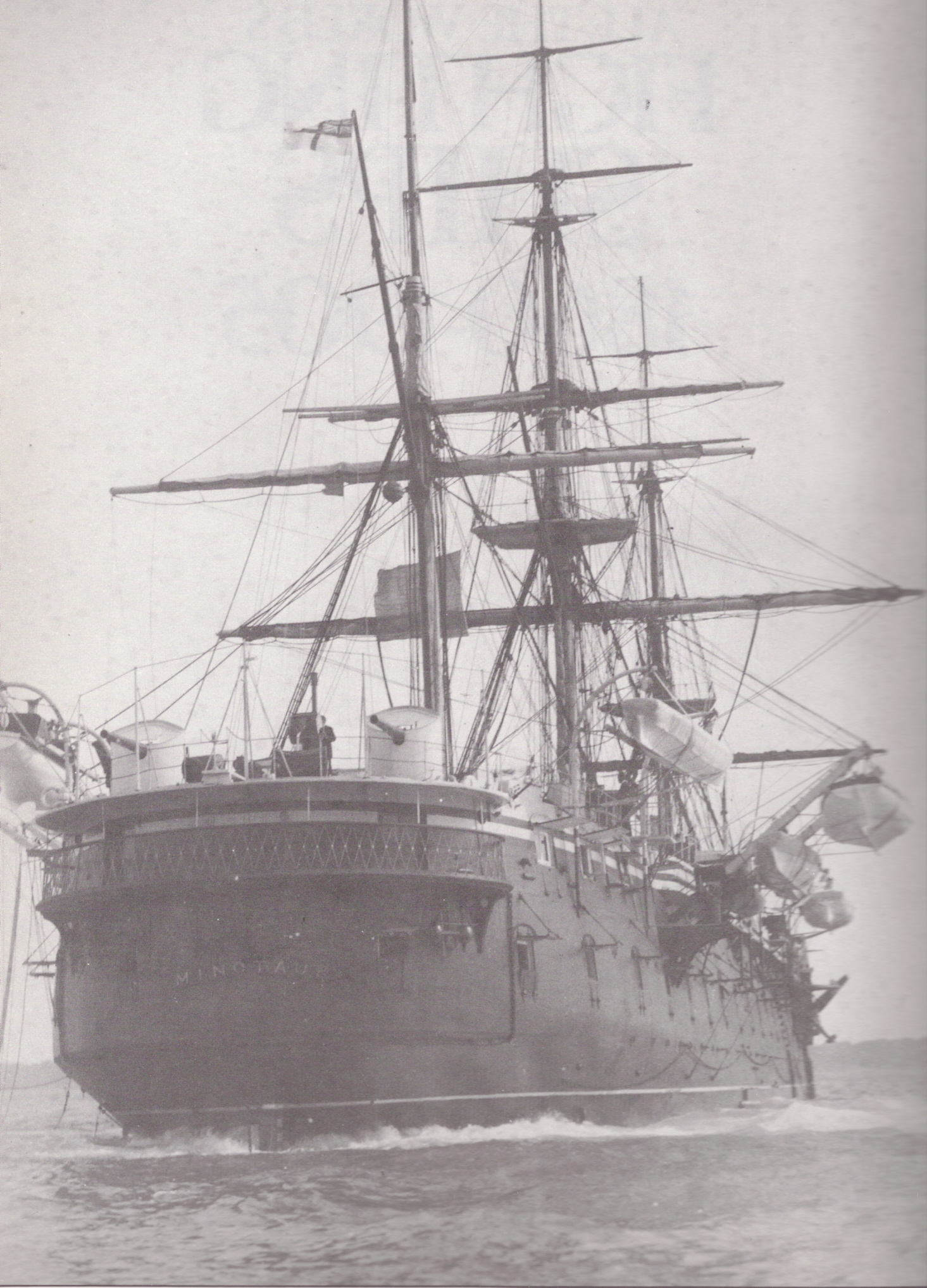 British broadside ironclad HMS Minotaur, showing two modern 4.7 inch QF guns mounted on poop deck.